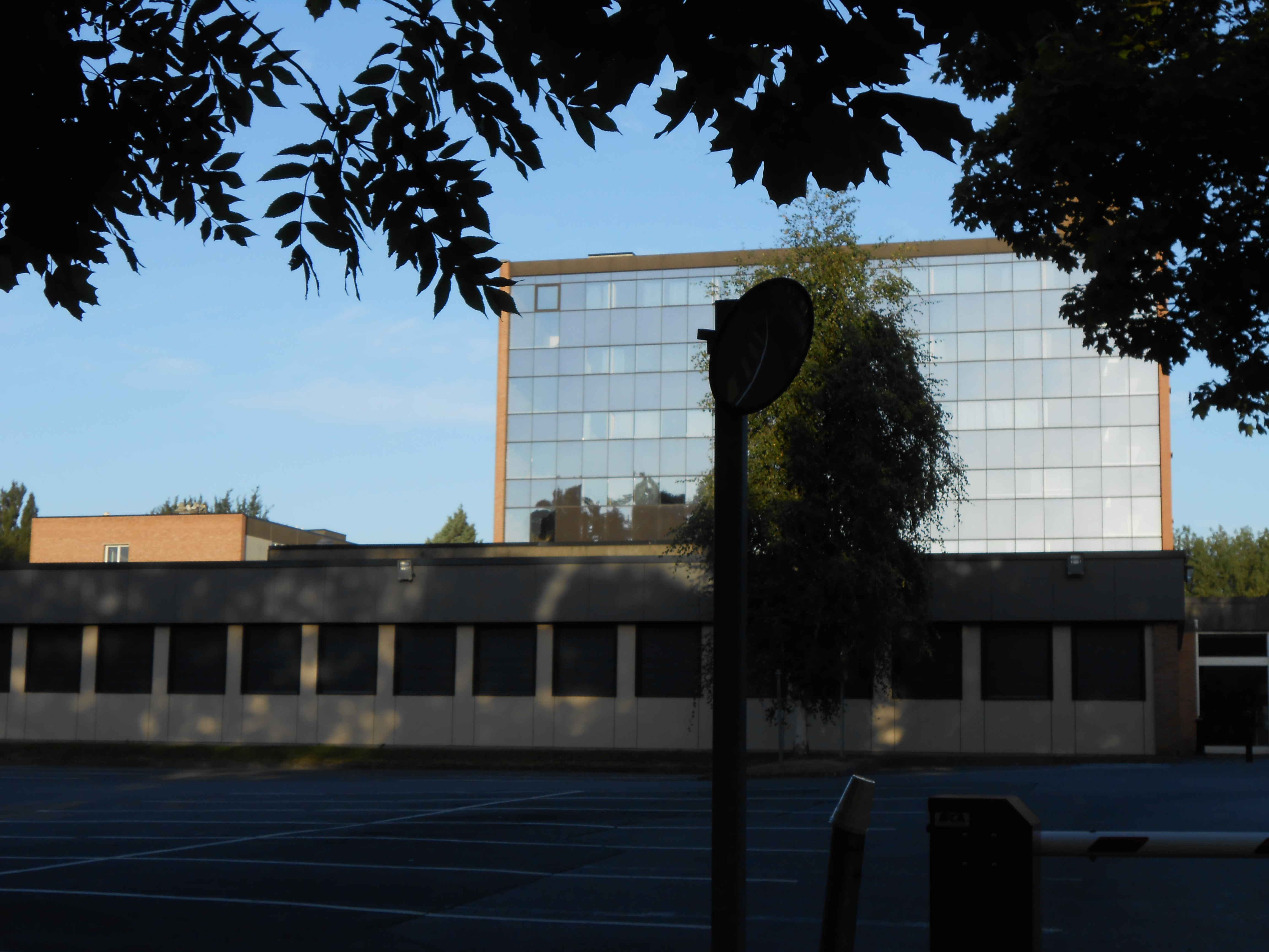 École centrale de Lille, Graduate engineering school, Lille, France